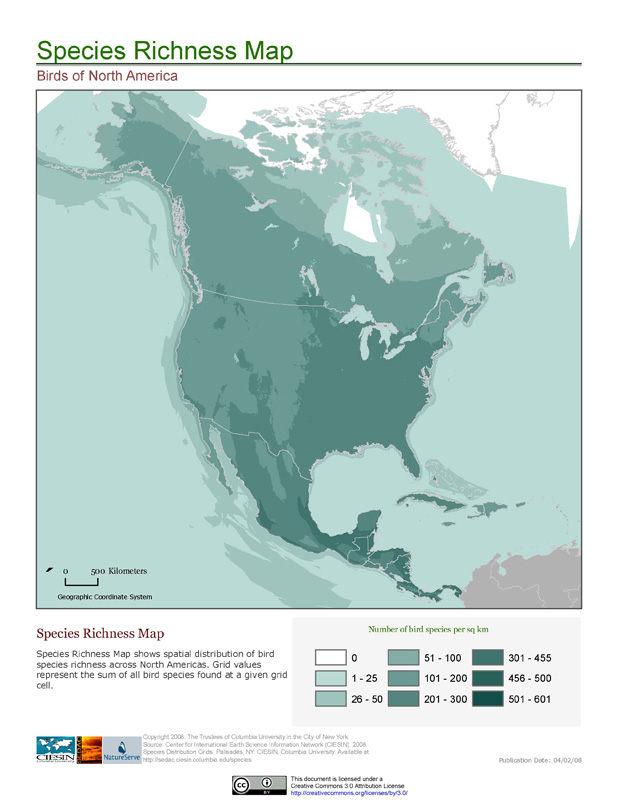 Grid values represent sum of all bird species found at a given grid cell.